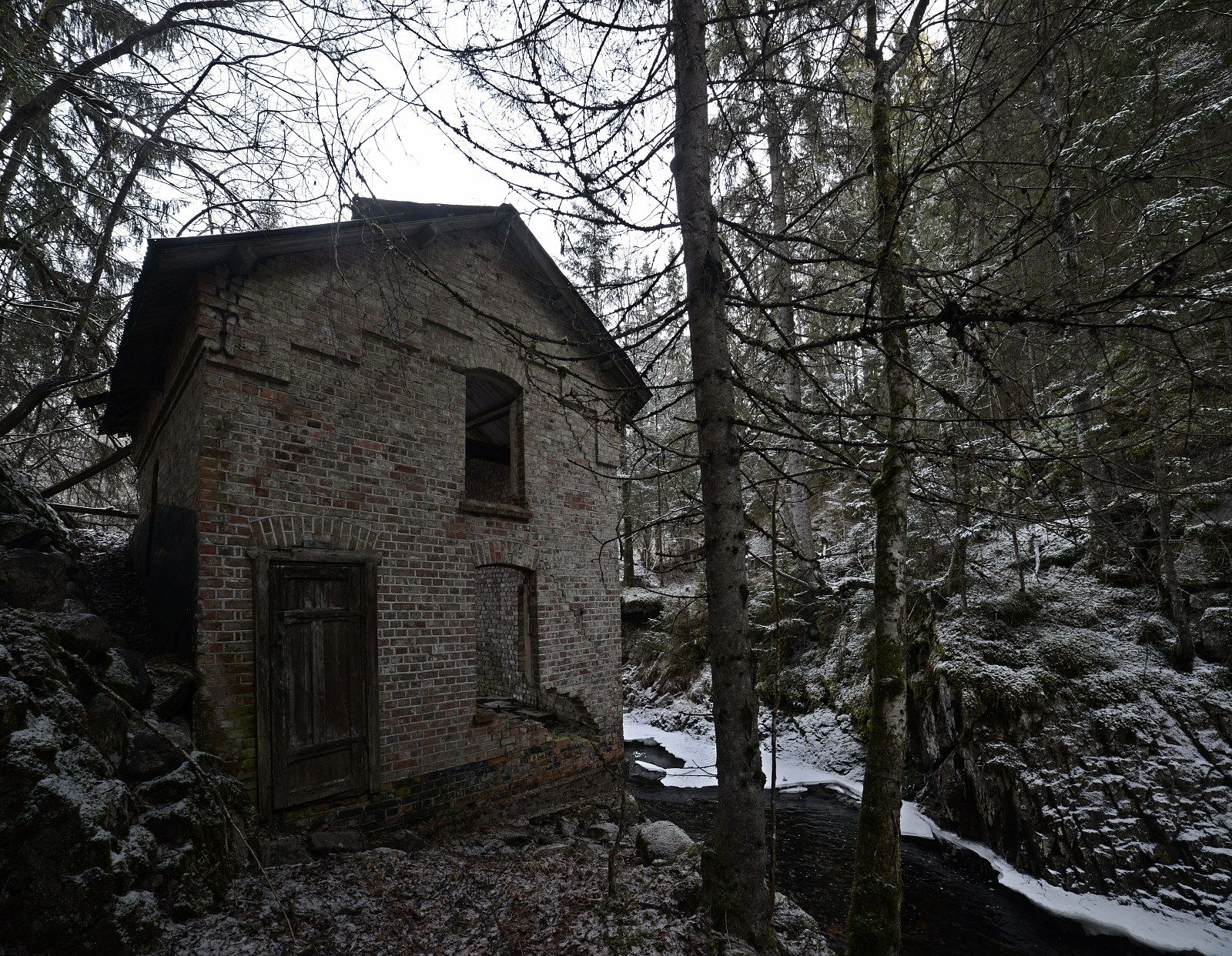 The remains of the powerstation at Nitedals explosives factory